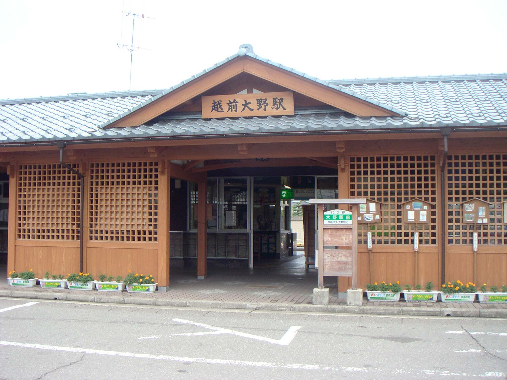 West Japan Railway Company Etsumi-Hoku Line, Echizen-Ōno Station Exterior